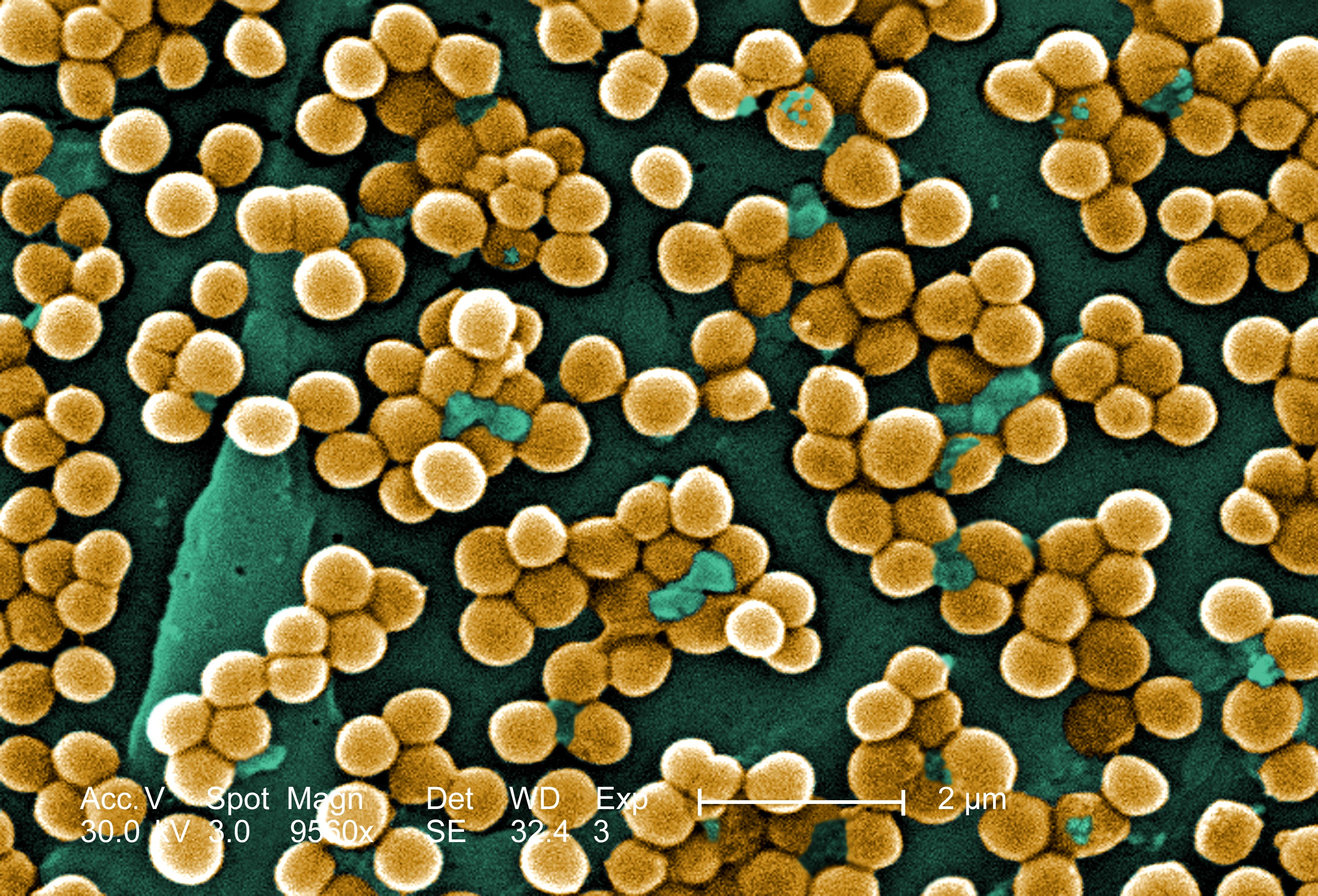 This 2005 scanning electron micrograph (SEM) depicted numerous clumps of methicillin-resistant Staphylococcus aureus bacteria, commonly referred to by the acronym, MRSA; Magnified 9560x. Recently recognized outbreaks, or clusters of MRSA in community settings have been associated with strains that have some unique microbiologic and genetic properties, compared with the traditional hospital-based MRSA strains, which suggests some biologic properties, e.g., virulence factors like toxins, may allow the community strains to spread more easily, or cause more skin disease. A common strain named USA300-0114 has caused many such outbreaks in the United States. See PHIL 7821 for a black and white version of this micrograph.